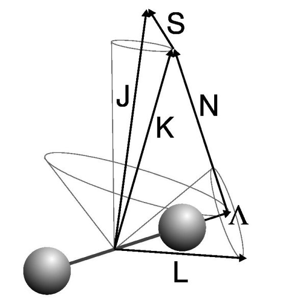 Sketch showing the Hund coupling case b)